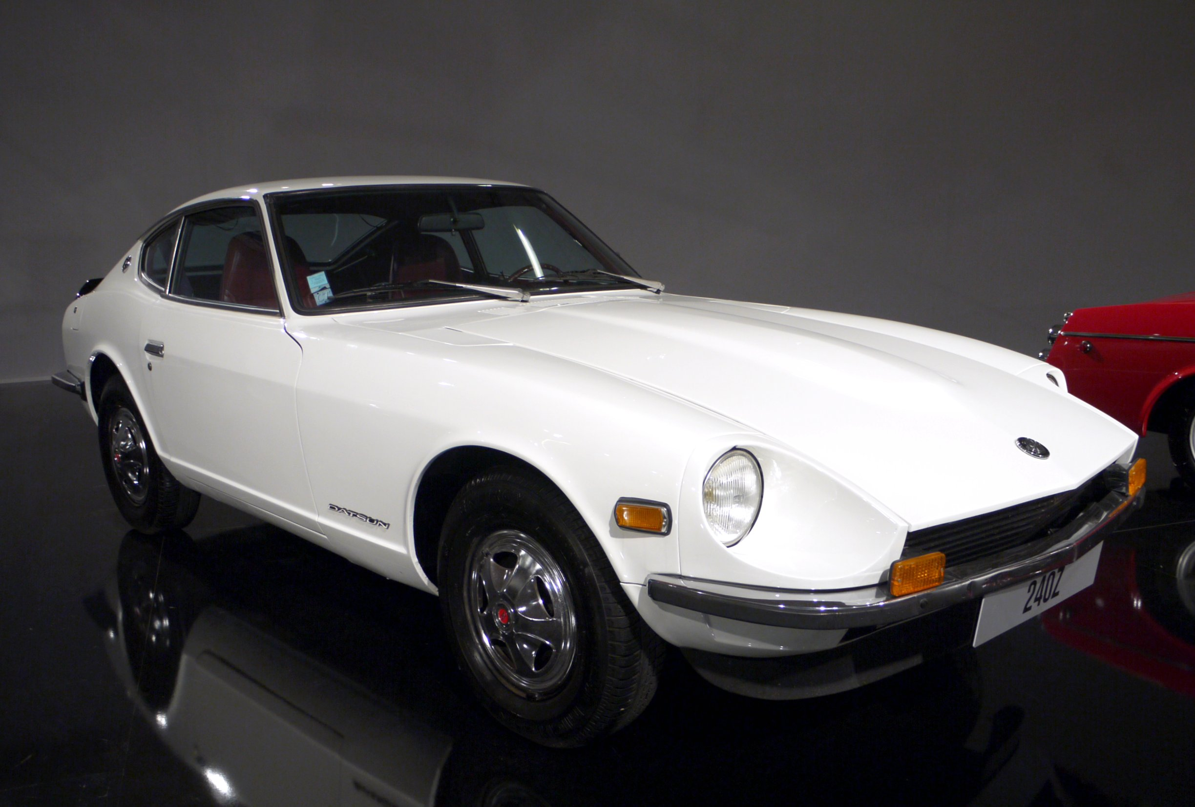 1970-1974 Nissan 240Z. Spec.: - 2400 cc - 151 bhp